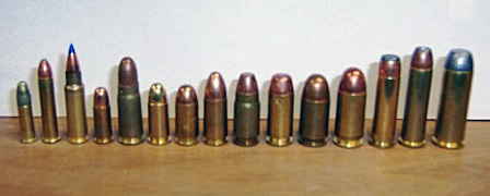 Comparison of handgun calibers from left to right: .22 Long Rifle, .22 Magnum, 5.7x28mm, .25 ACP, 7.62 x 25 Tokarev, .32 ACP / 7.65 mm Browning), .380 ACP / 9x17mm, 9x19mm Parabellum, .357 SIG, .40 S&W, .45 GAP, .45 ACP, .38 Special, .357 Magnum, .45 Colt